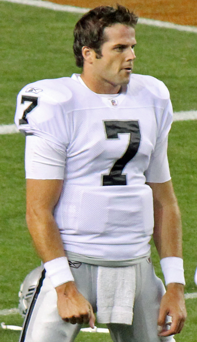 Kyle Boller, a player in the National Football League.